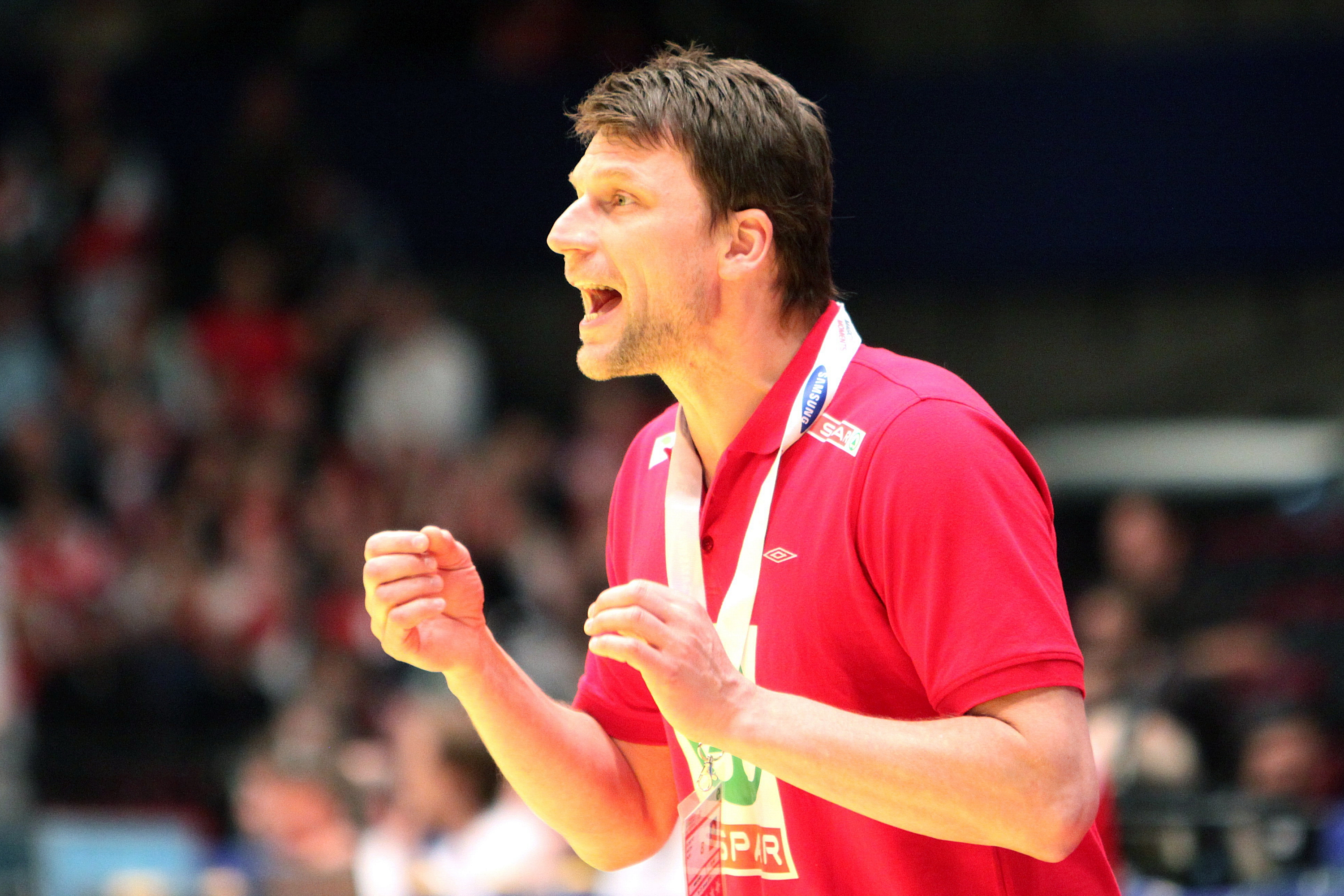 Robert Hedin (Teamchef), Norway national handball team